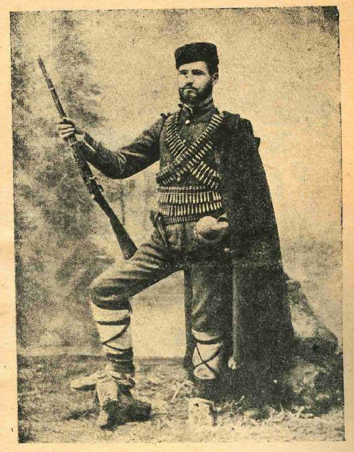 Portrait of IMARO Voivoda Hristo Shaldev